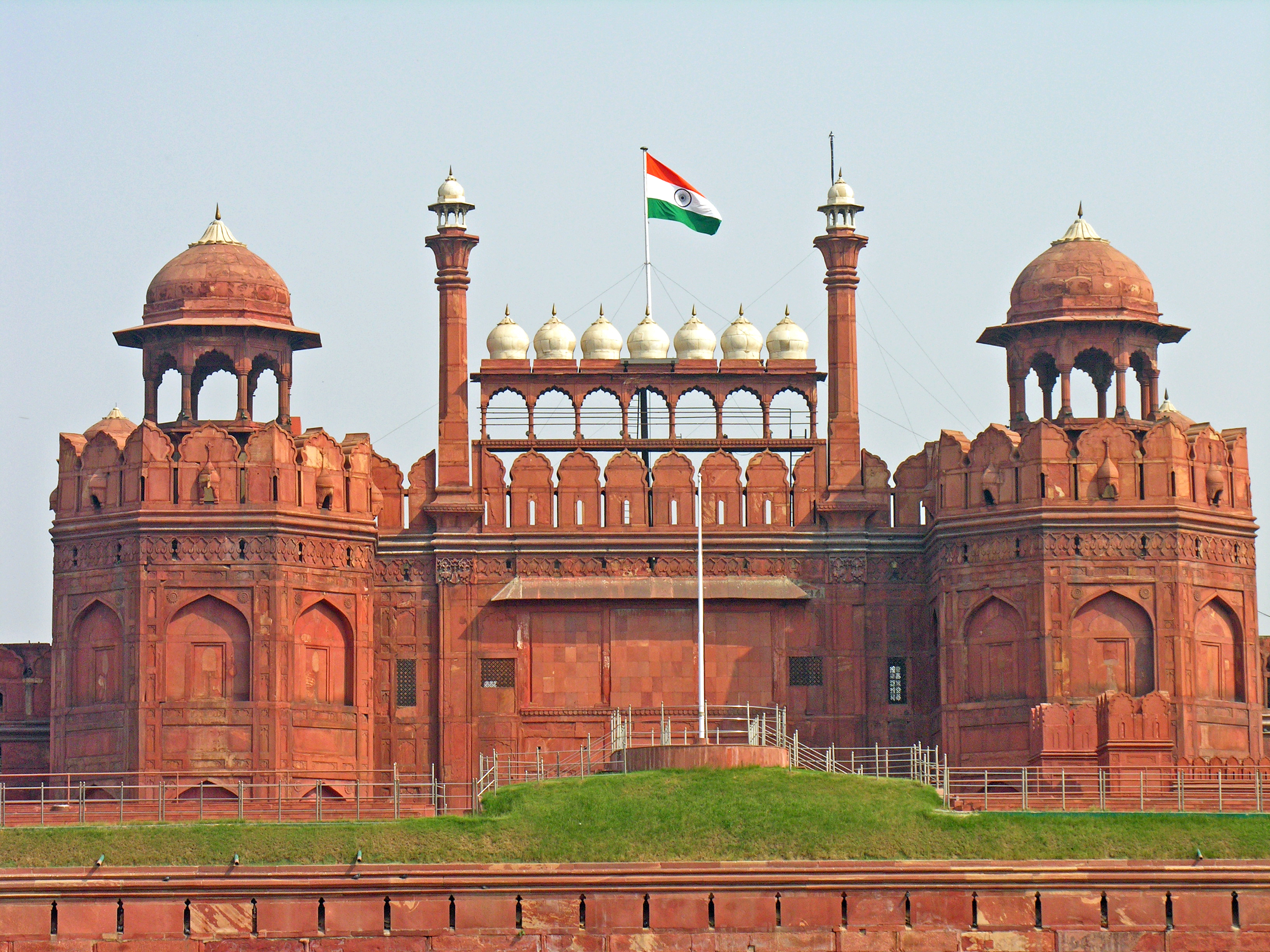 Red Fort - Closer view of the top part of the gate above the Meena Bazaar. Delhi, India